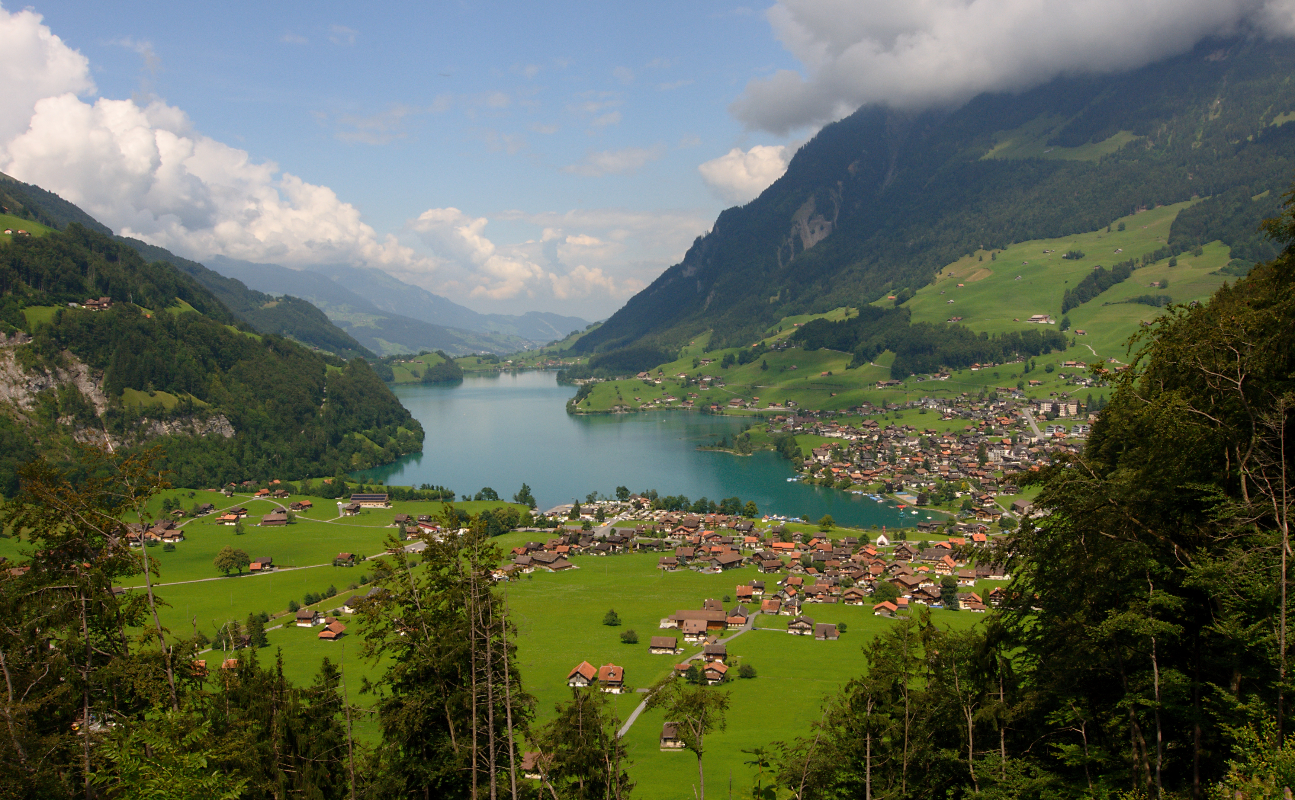 Lungern and its lake